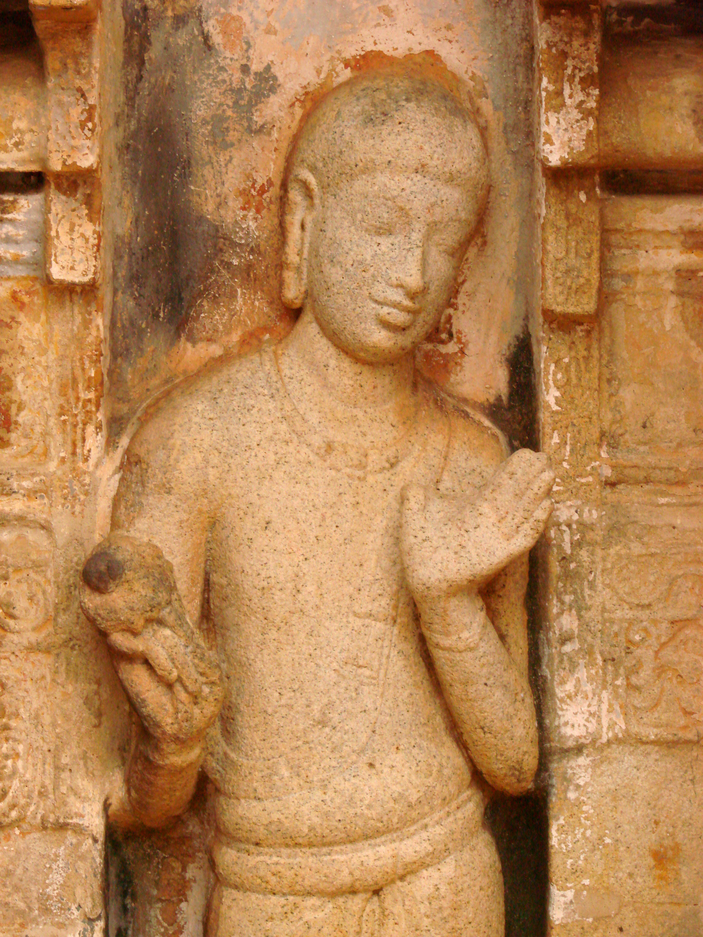 Ancient sculpture at Nageshwara Temple, Kumbakonam, India. July 2008. "Framed in the main niches around [the Nageshwara temple's] sanctum wall are a series of exquisite stone figures, regarded as the finest surviving pieces of ancient sculpture in South India. With their languid stance and mesmeric, half-smiling facial expressions, these [are] modest-sized masterpieces ..." (Rough Guide to South India)